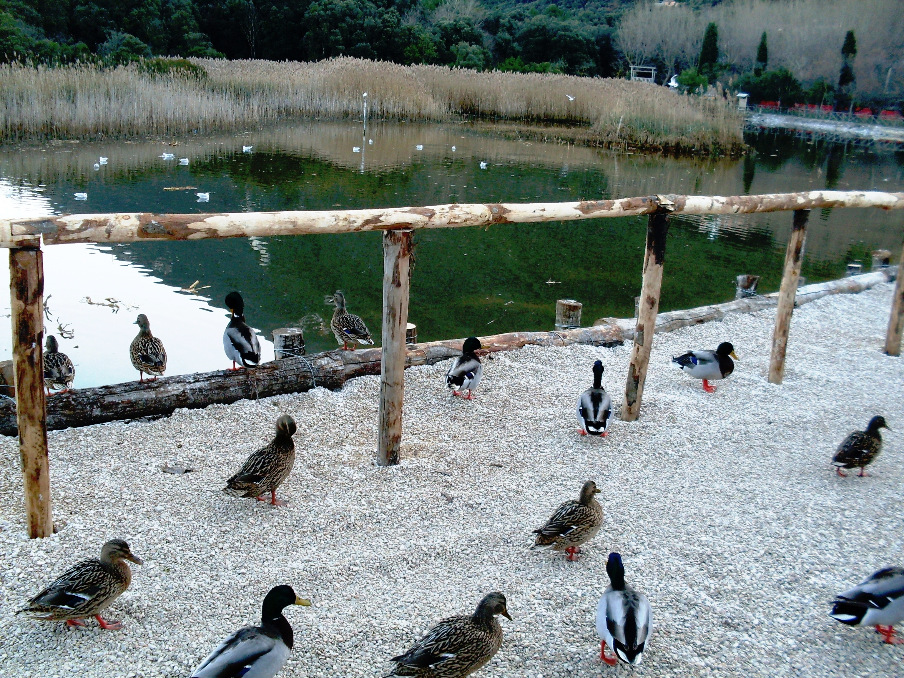 Italy Ancona Portonovo - smal lake by the pier